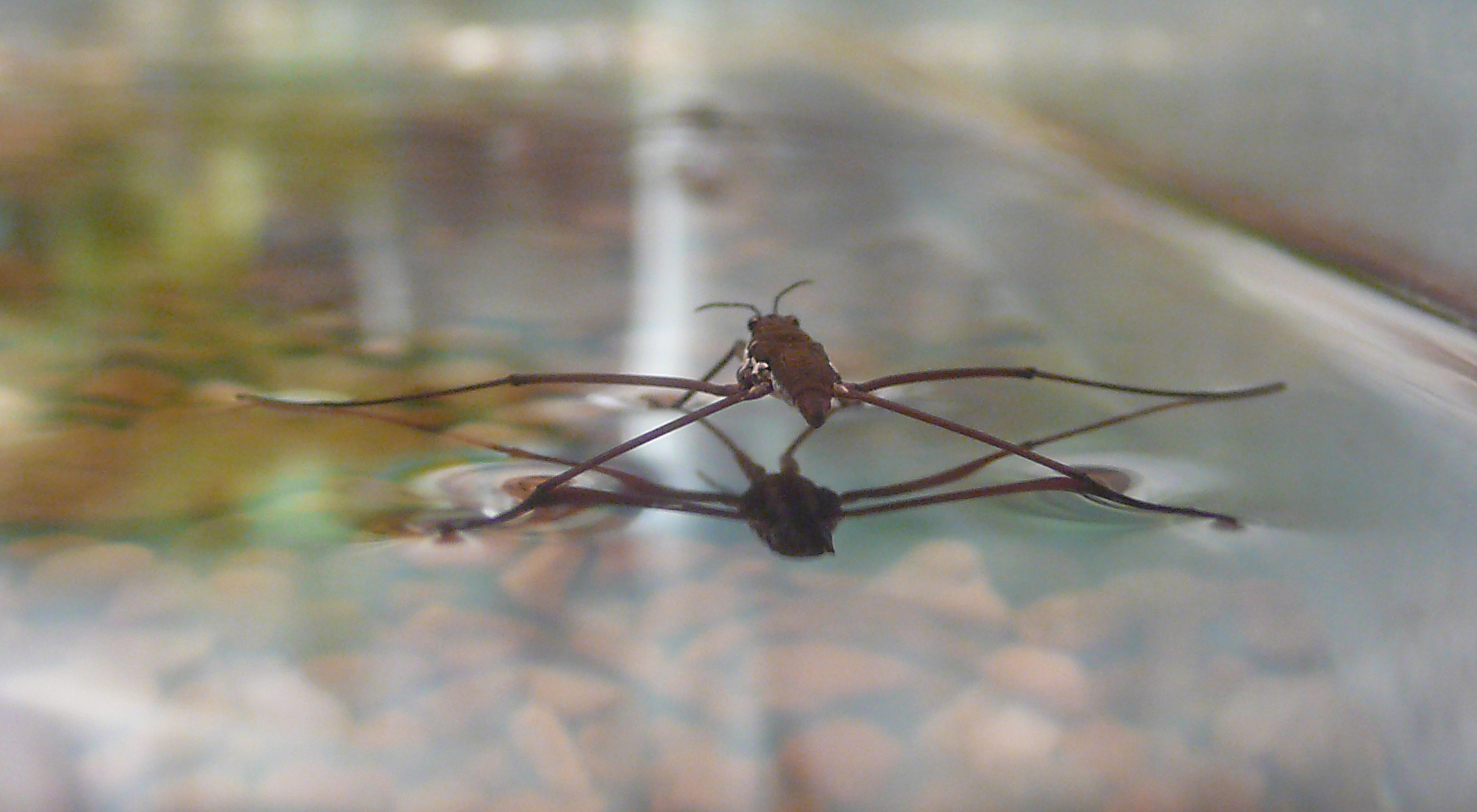 Water strider (Gerris spp.)